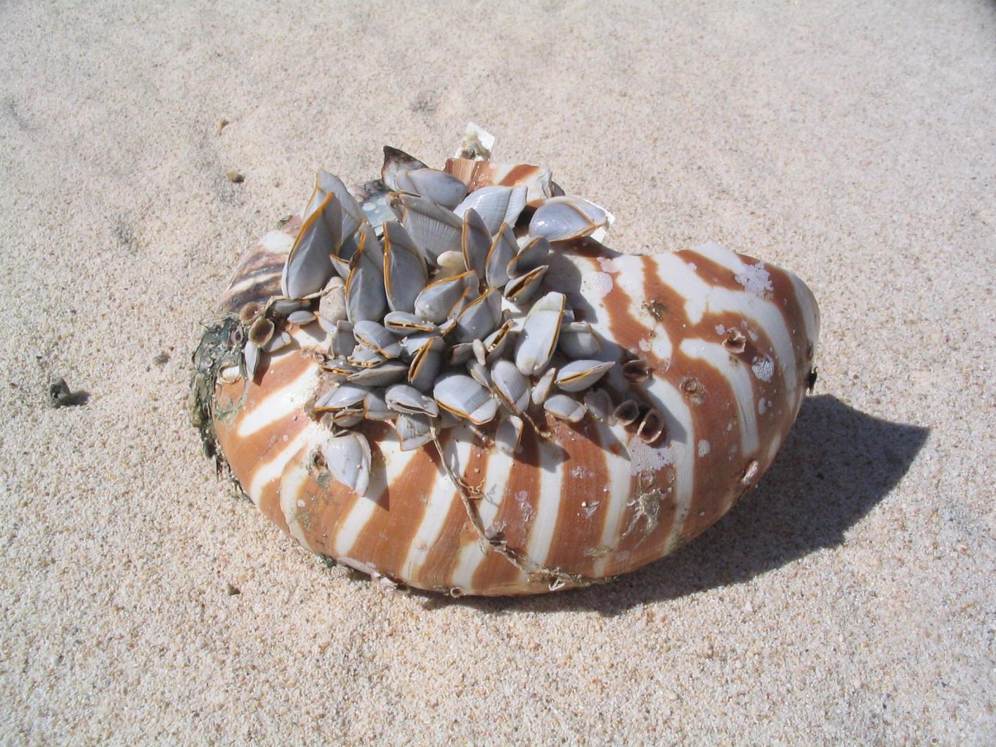 An unknown species of cirripedian crustaceans in a Naultilus shell (Russell Island, Great Barrier Reef) in 2005.